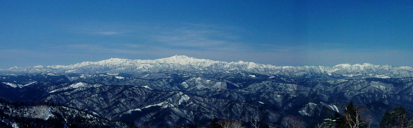 Ryōhaku Mountains from_kuraiyama_2005-3-21